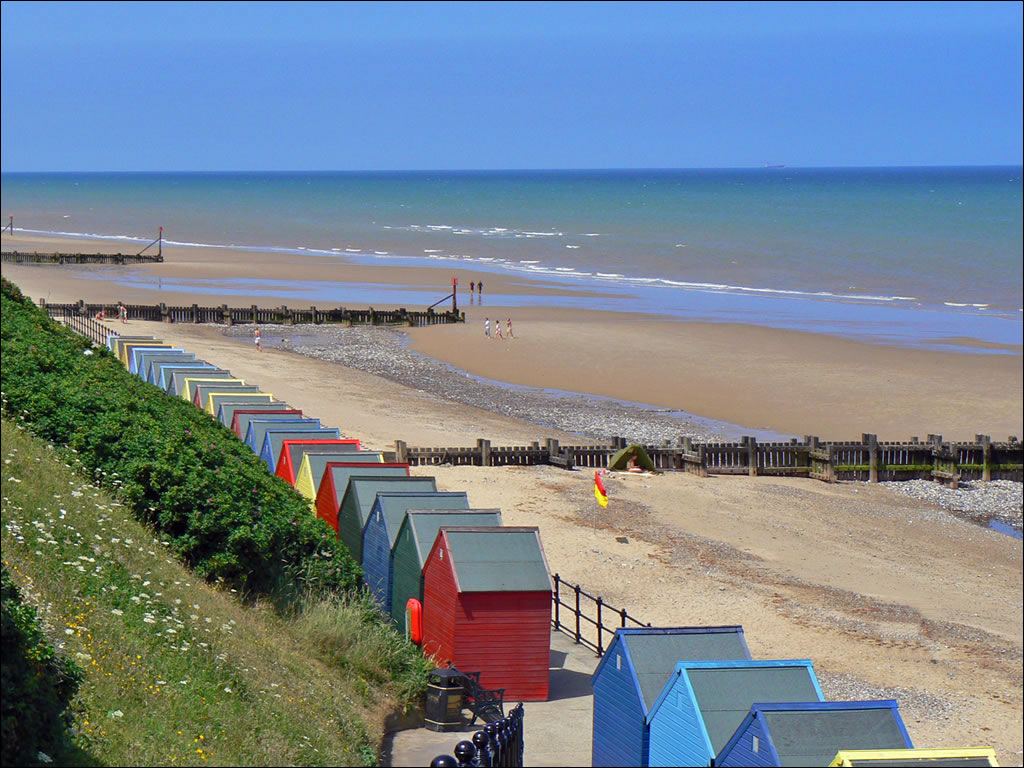 Mundesley beach, looking North Photo taken by Mark Oakden of TourNorfolk for the Mundesley online guided tour at